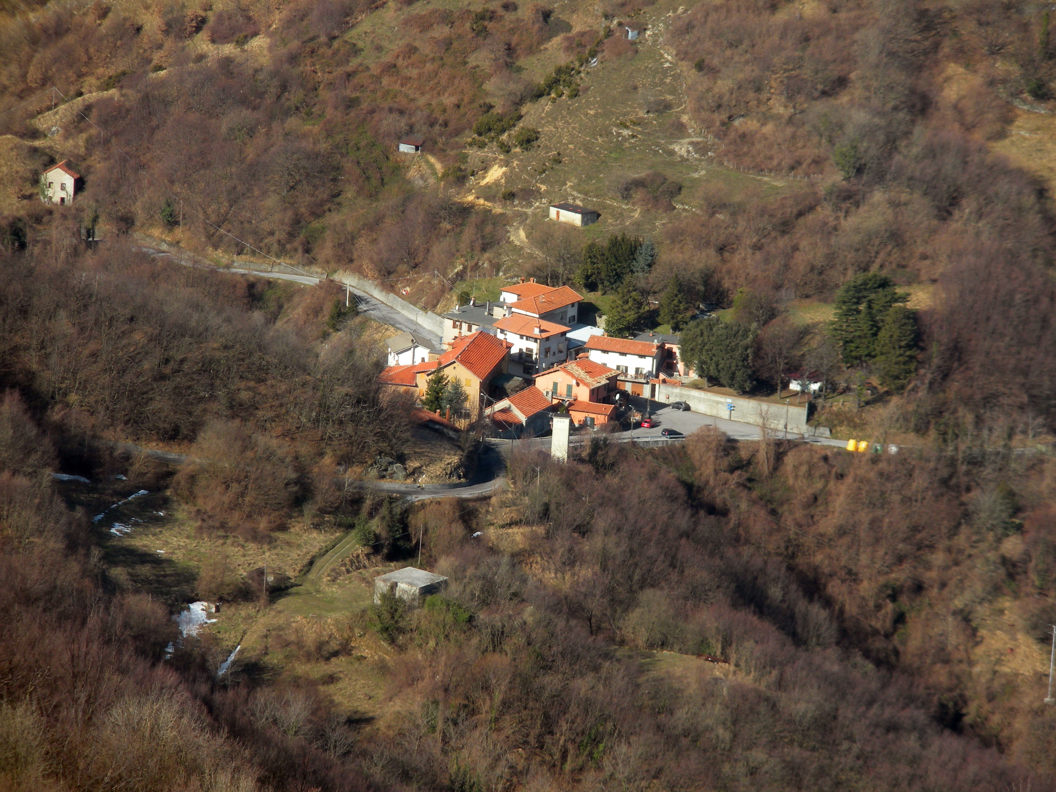 Ceranesi, province of Genoa, Italy, the hamlet of Lencisa from the shrine of N.S. della Guardia